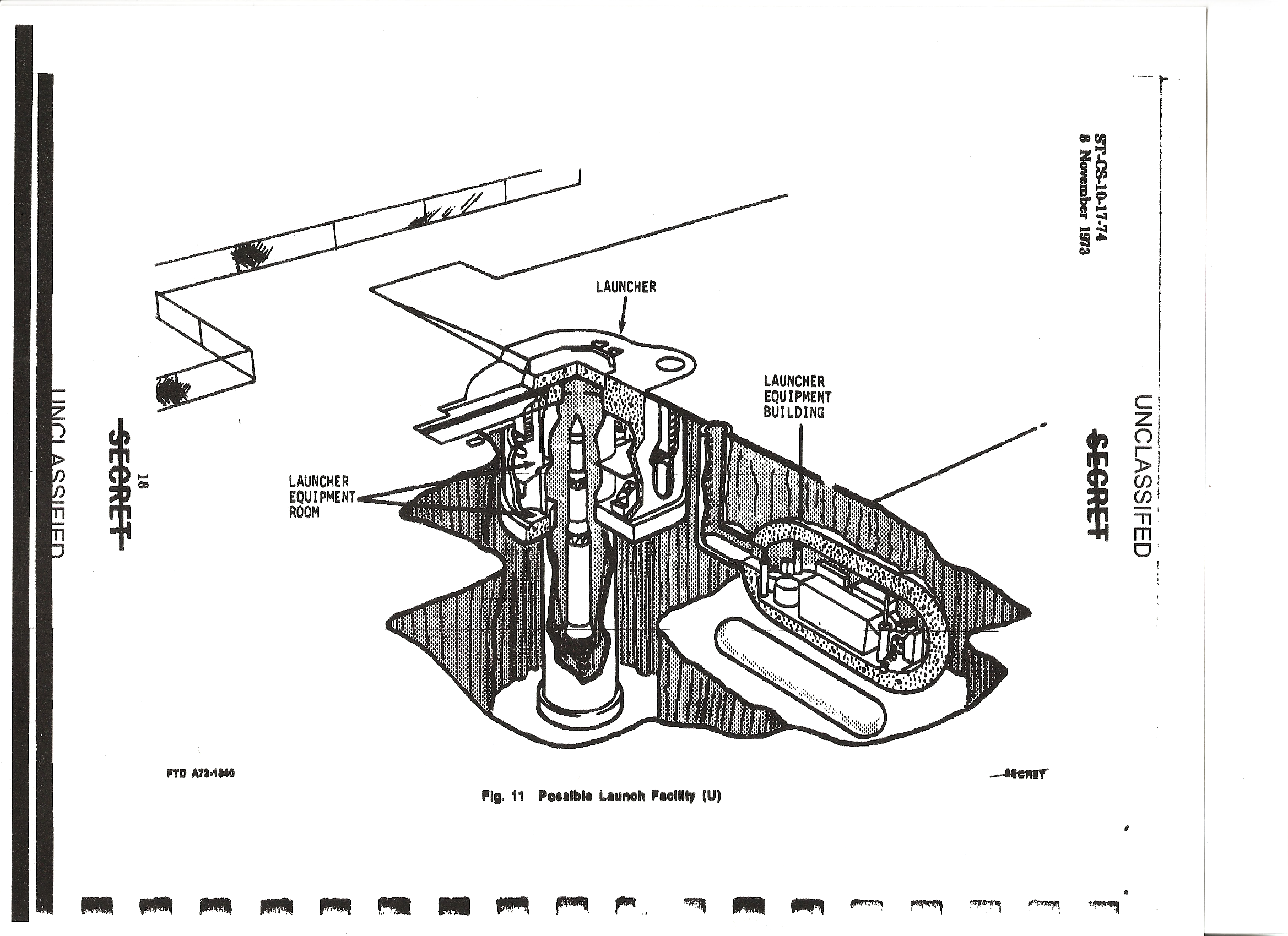 RT-2 (SS-13) possible launch facility configuration